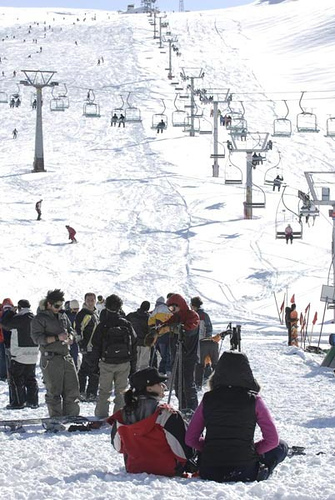 International Snowboard championship in Dizin. The ski resort of Dizin is situated to the north of Tehran in the Alborz Mountains range.